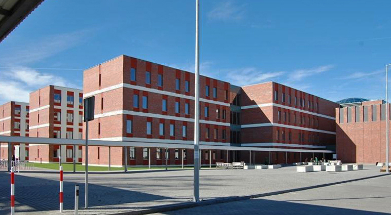 new university building in Torun